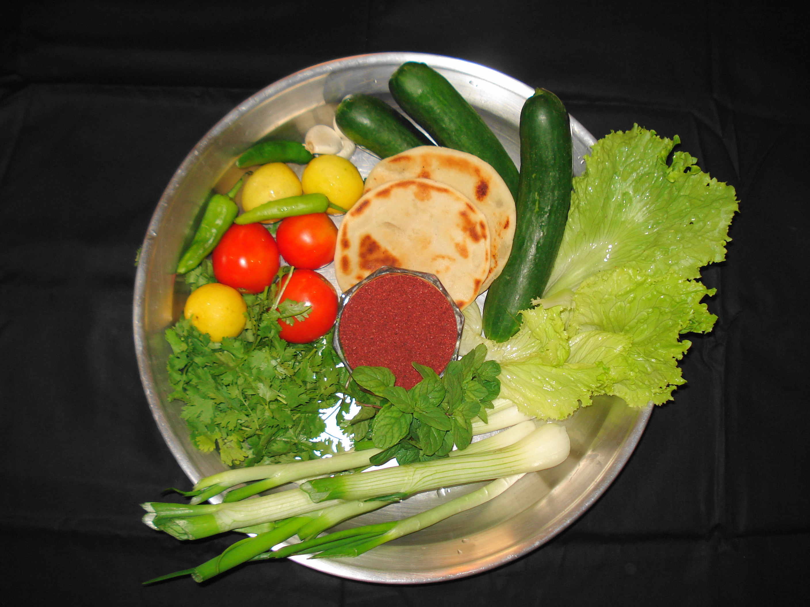 Fattoush